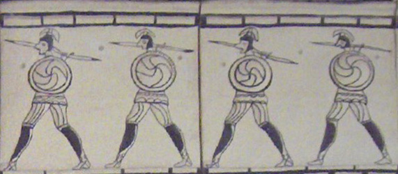 Warriors (detail from a reconstruction of a Phrygian building); Pararli,Turkey; 7th - 6th c. BC; Museum of Anatolian Civilizations, Ankara, Turkey